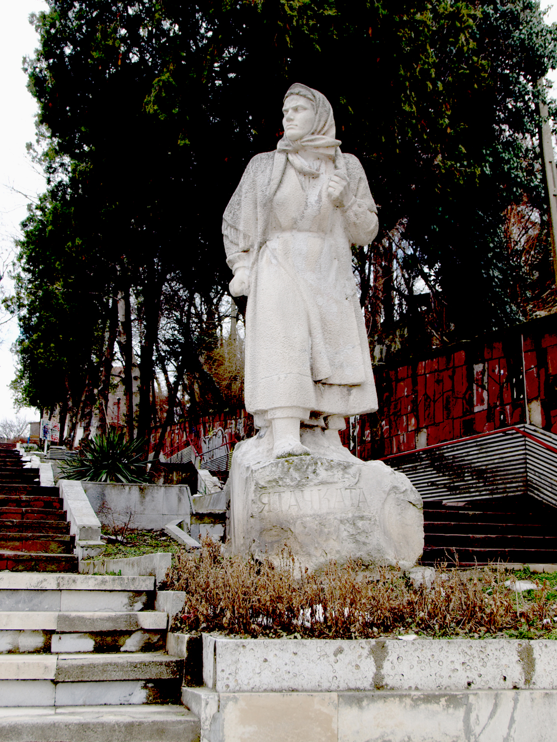 The Guerrilla Helper Monument in Dupnitsa, Bulgaria